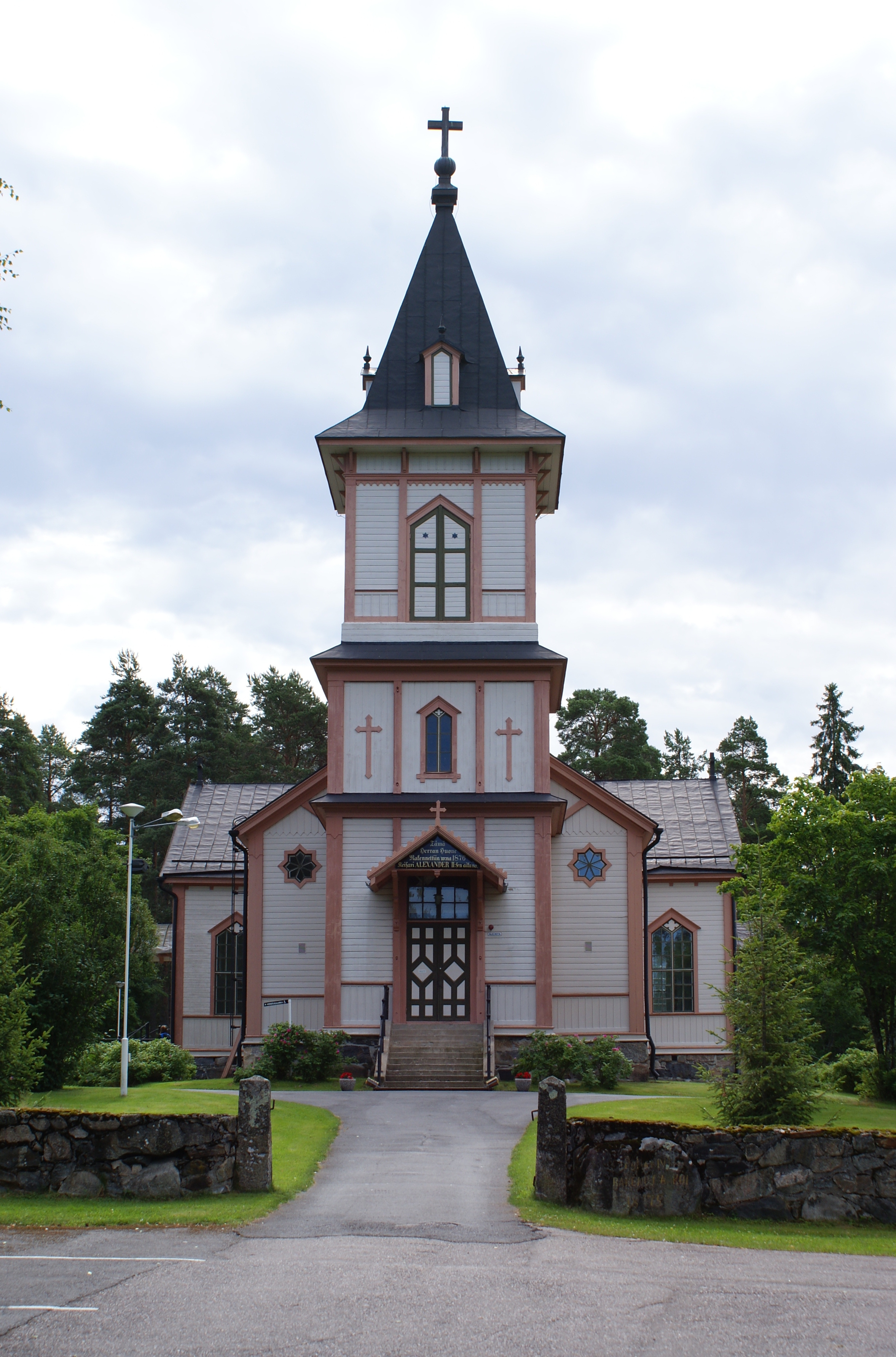 Keitele Church in Keitele, Finland.